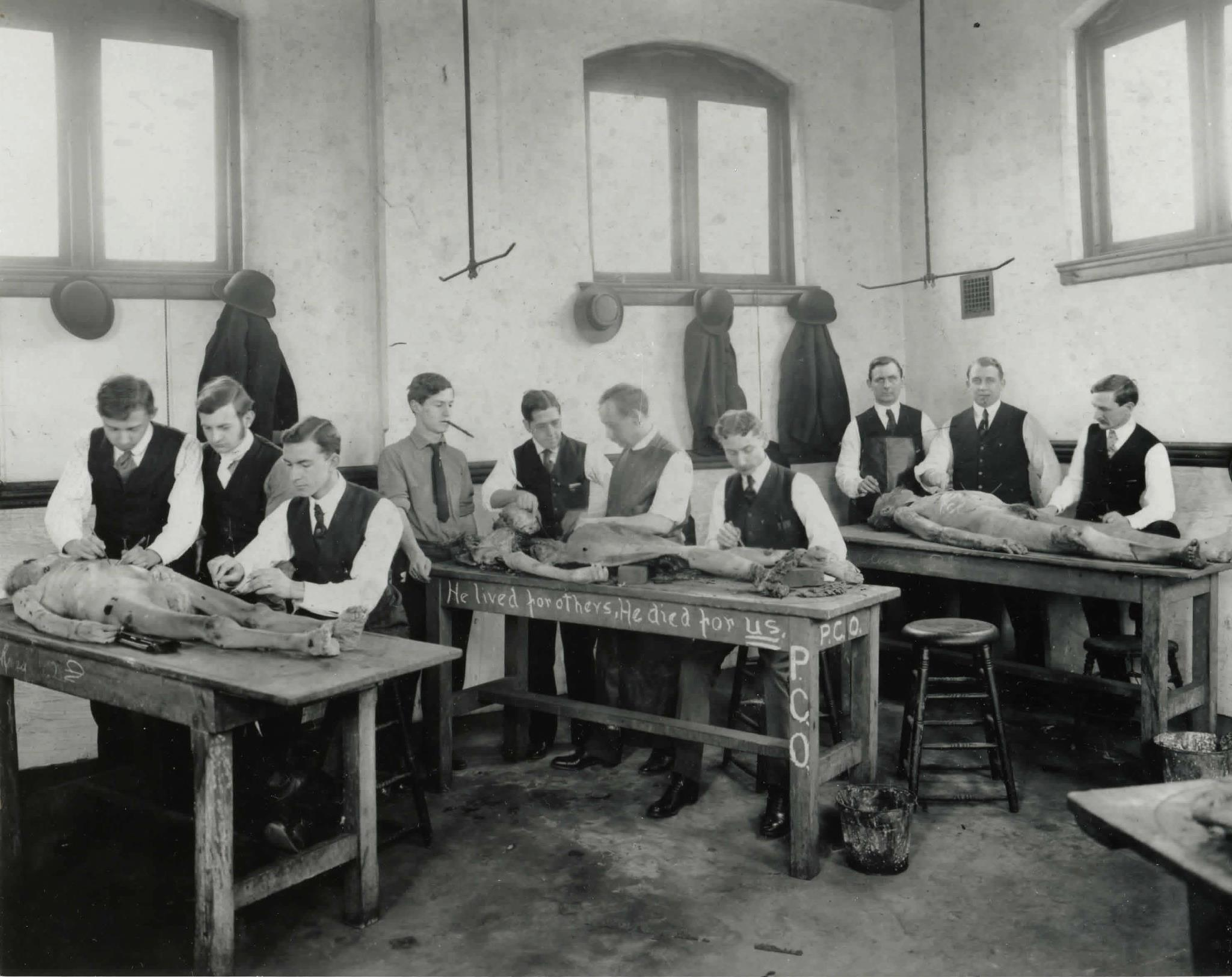 Philadelphia, PA